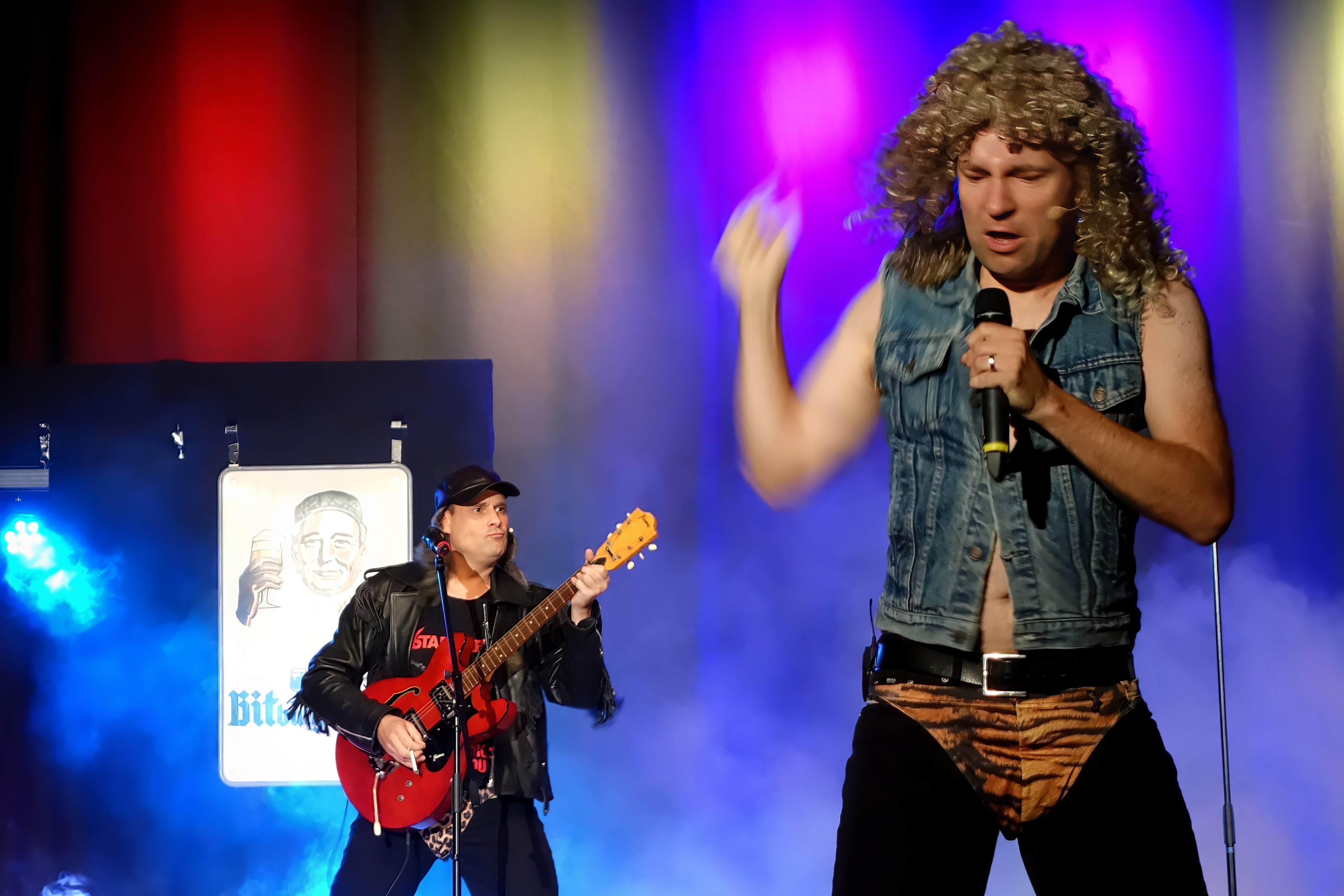 25 Years Rurtal Trio: The cover Rockband 'Top Sound' pictured during Rurtal Trio's one-off comeback on September 22 2016 in Hückelhoven's 'Aula des Gymnasiums'.